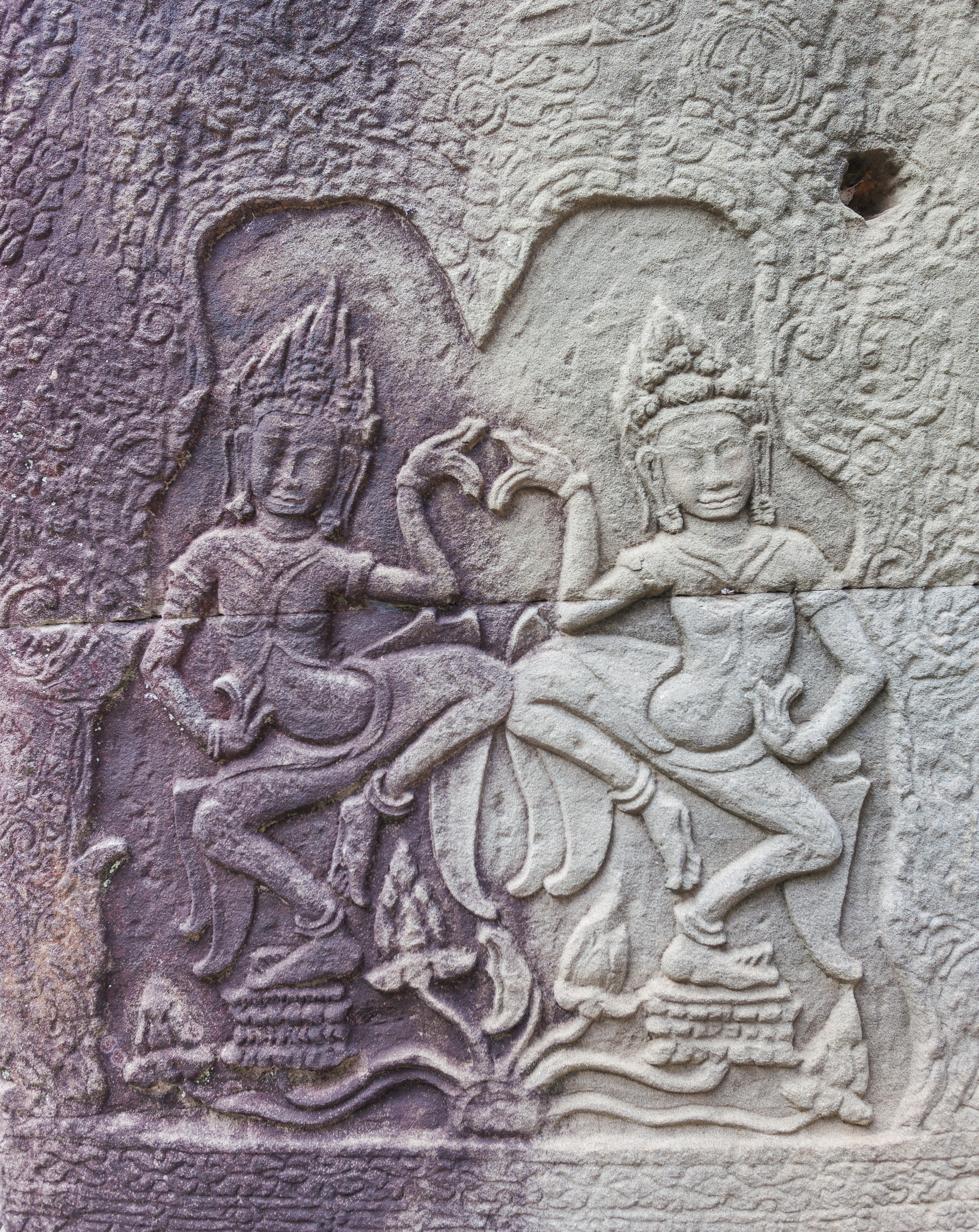 Banteay Kdei, Angkor, Cambodia